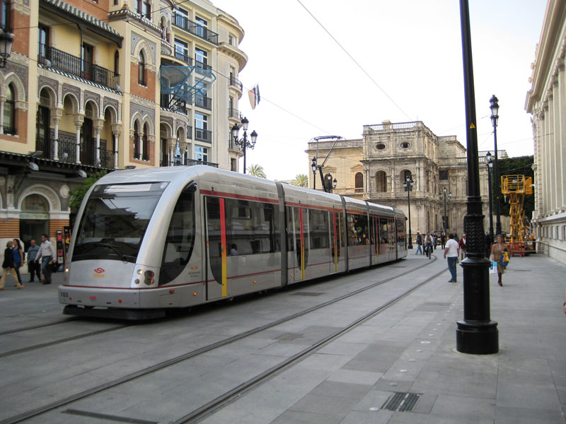 Metrocentro